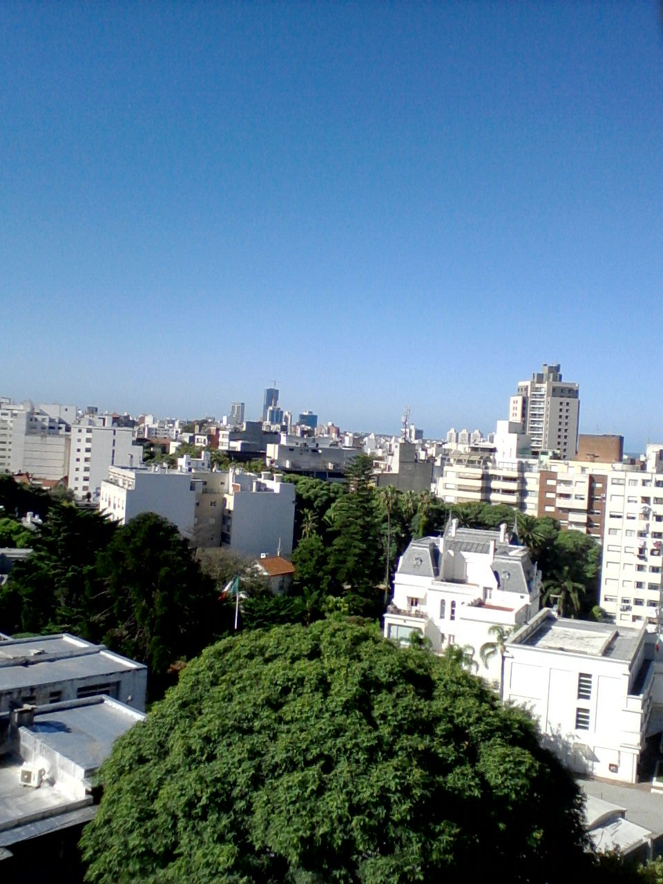 Pocitos, 11300 Montevideo, Montevideo Department, Uruguay - Embassy of Italy in Montevideo